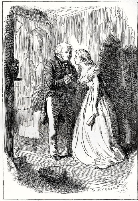 Bella promises her father that he will always have a place in their modest, middle-class home